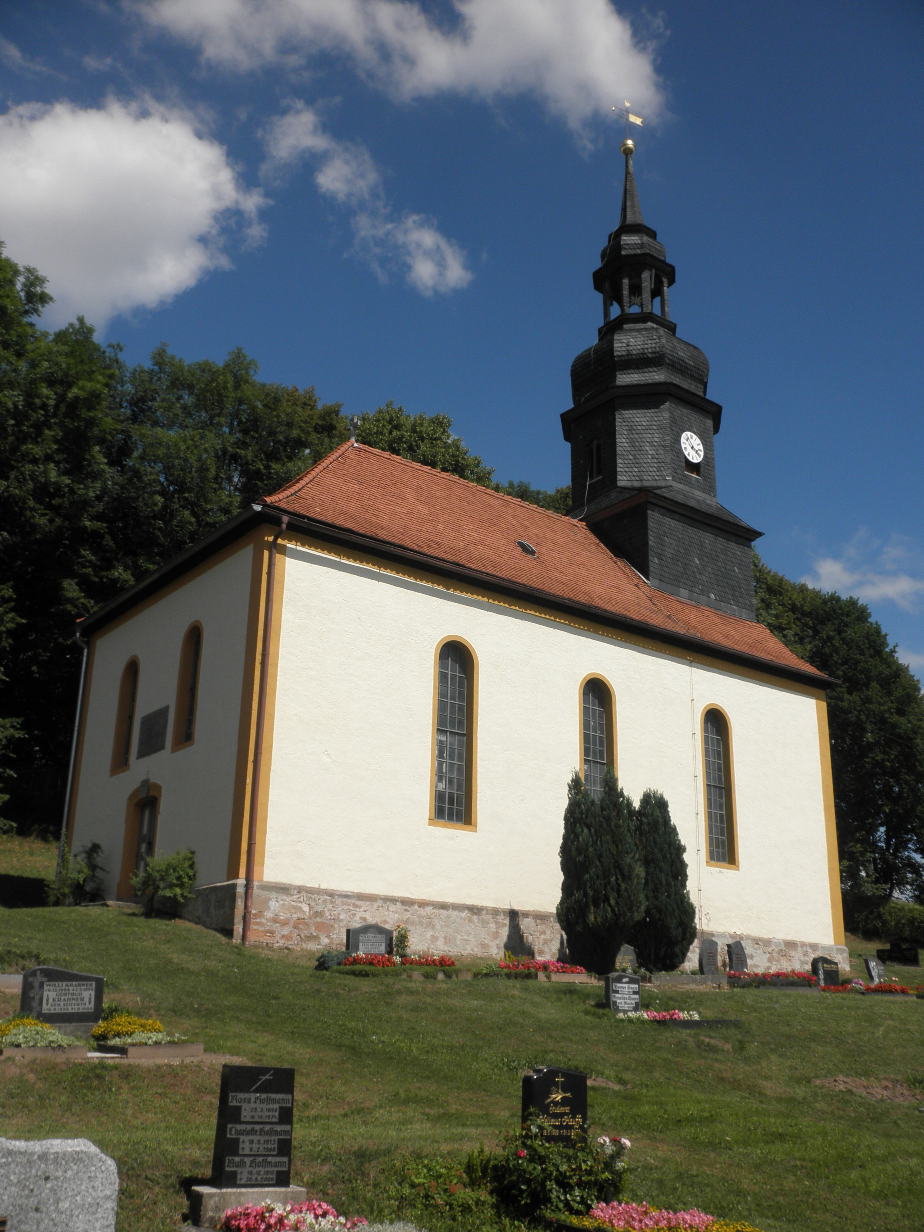 Church and Cemeteri in Pillingsdorf in Thuringia